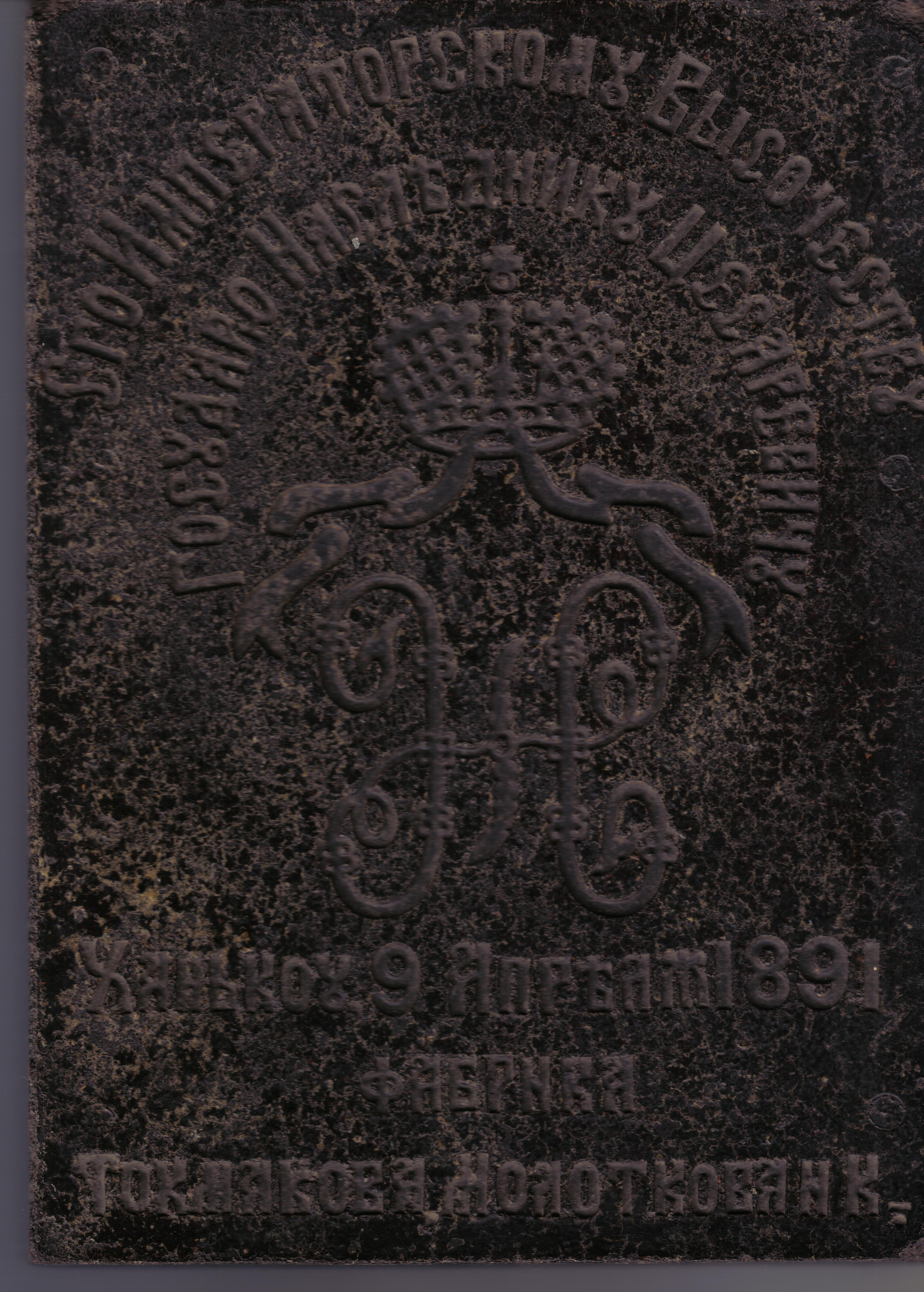 A brick of tea presented to Czar Nicholas II, dated 1891. Inscription states: "To His Imperial Highness, Lord Heir Czesarevich. Kharkov, 9th of April, 1891. Factory of Tokmakov, Molotkov & Co"